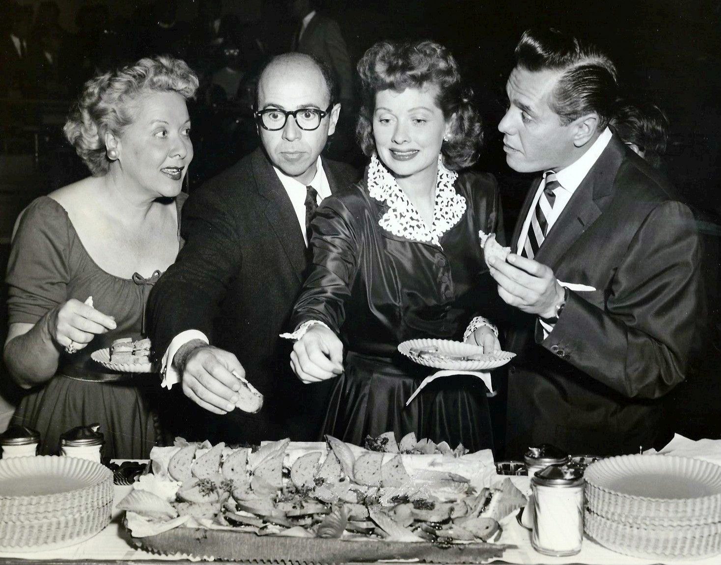 Photo from the 1955 press party for the television show I Love Lucy. At the buffet table from left: Vivian Vance, Jess Oppenheimer, producer and writer for the show, Lucille Ball and Desi Arnaz.